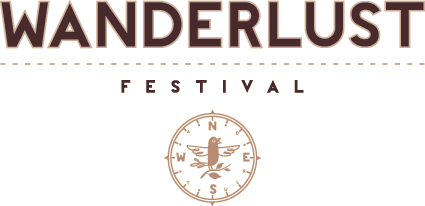 Wanderlust Logo 2013